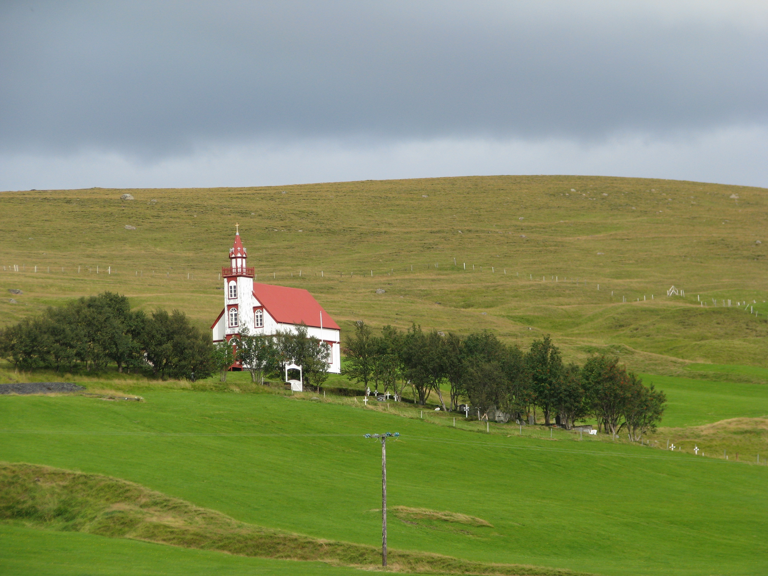 Church in Hlíðarendi í Fljótshlið, Sýsla (district) Rangárvallasýsla in Iceland